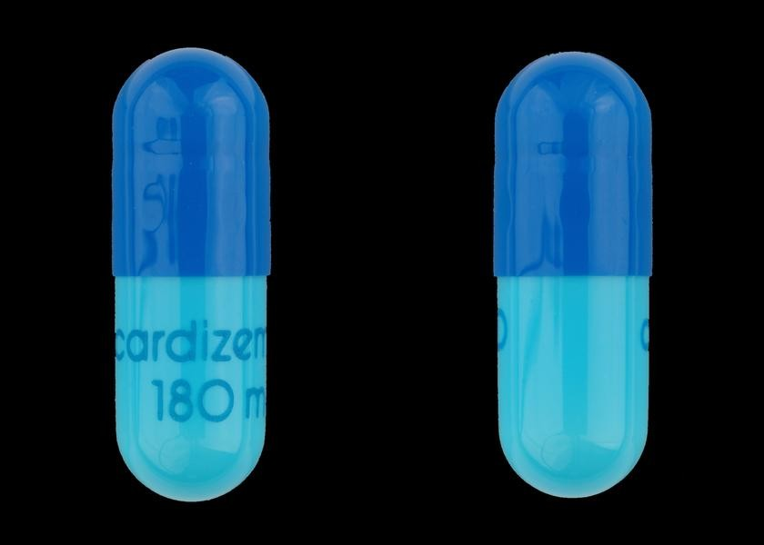 Drug Name: 24 HR Cardizem 180 MG Extended Release Capsule *Ingredient(s): Diltiazem Drug Label Imprint: cardizem;CD;180;mg Color(s): Blue Shape: Capsule Size (mm): 22.00 Score: 1 Inactive Ingredient(s): ShowHide acetyltributyl citrate / ferrosoferric oxide / cas... acetyltributyl citrate / ferrosoferric oxide / castor oil / ethylcellulose / fd&c blue no. 1 / fumaric acid / gelatin / silicon dioxide / sucrose / talc / titanium dioxide / stearic acid / white wax Drug Label Author:BTA Pharmaceuticals Inc. DEA Schedule:Non-scheduled